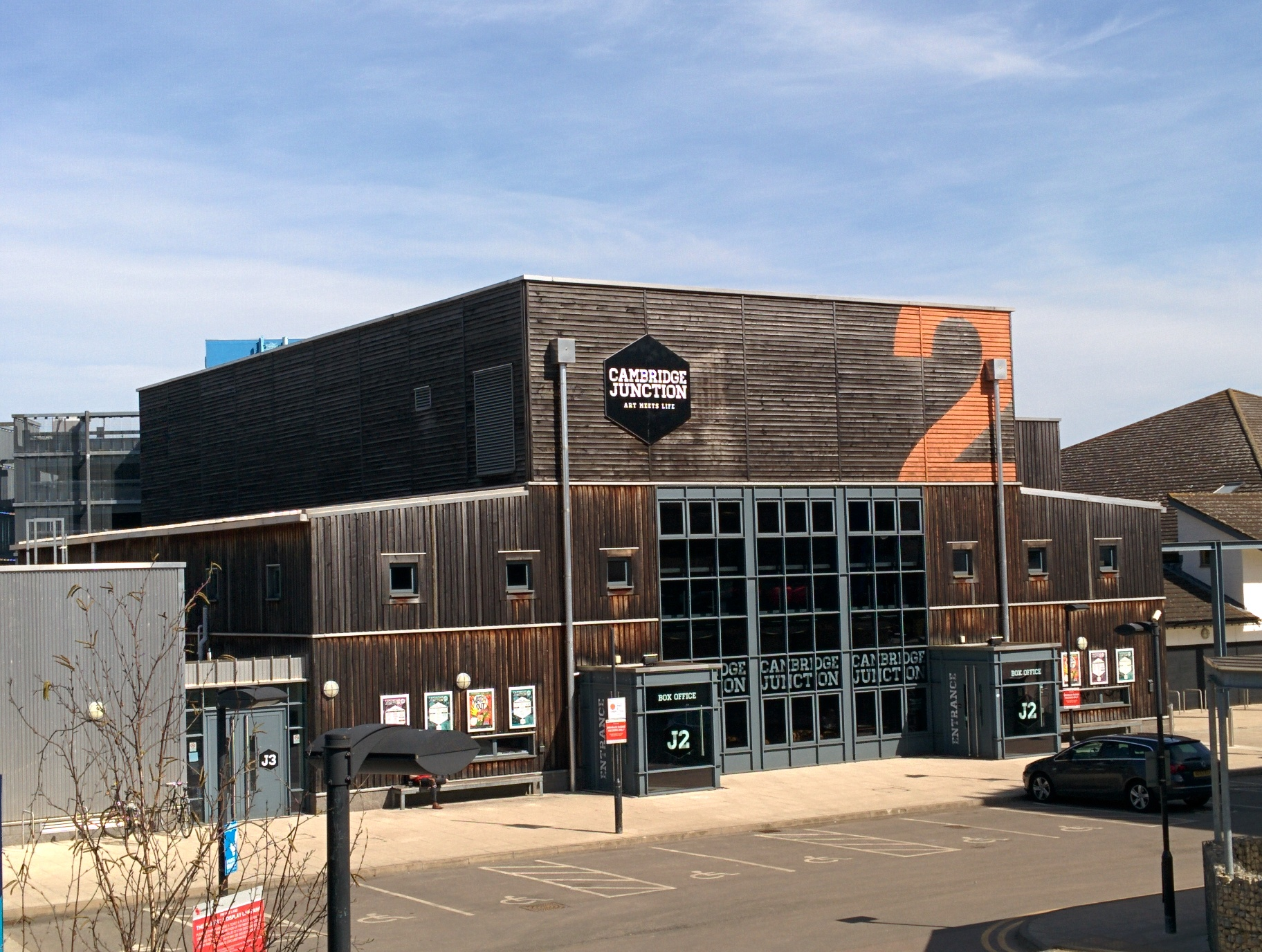 Cambridge Junction at Hills Road and Cherry Hinton Road